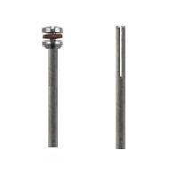 Mandrels, left for slices, right for sandpaper